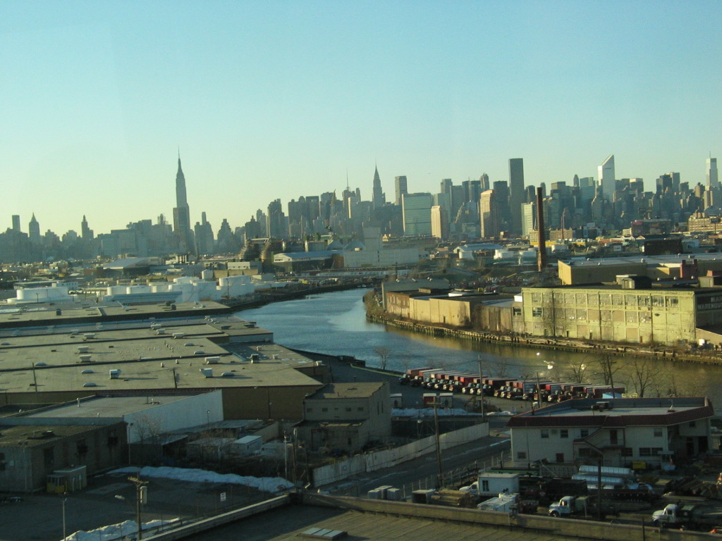 New Town Creek is flowing through Long Island City, NYC Skyline is on a background.